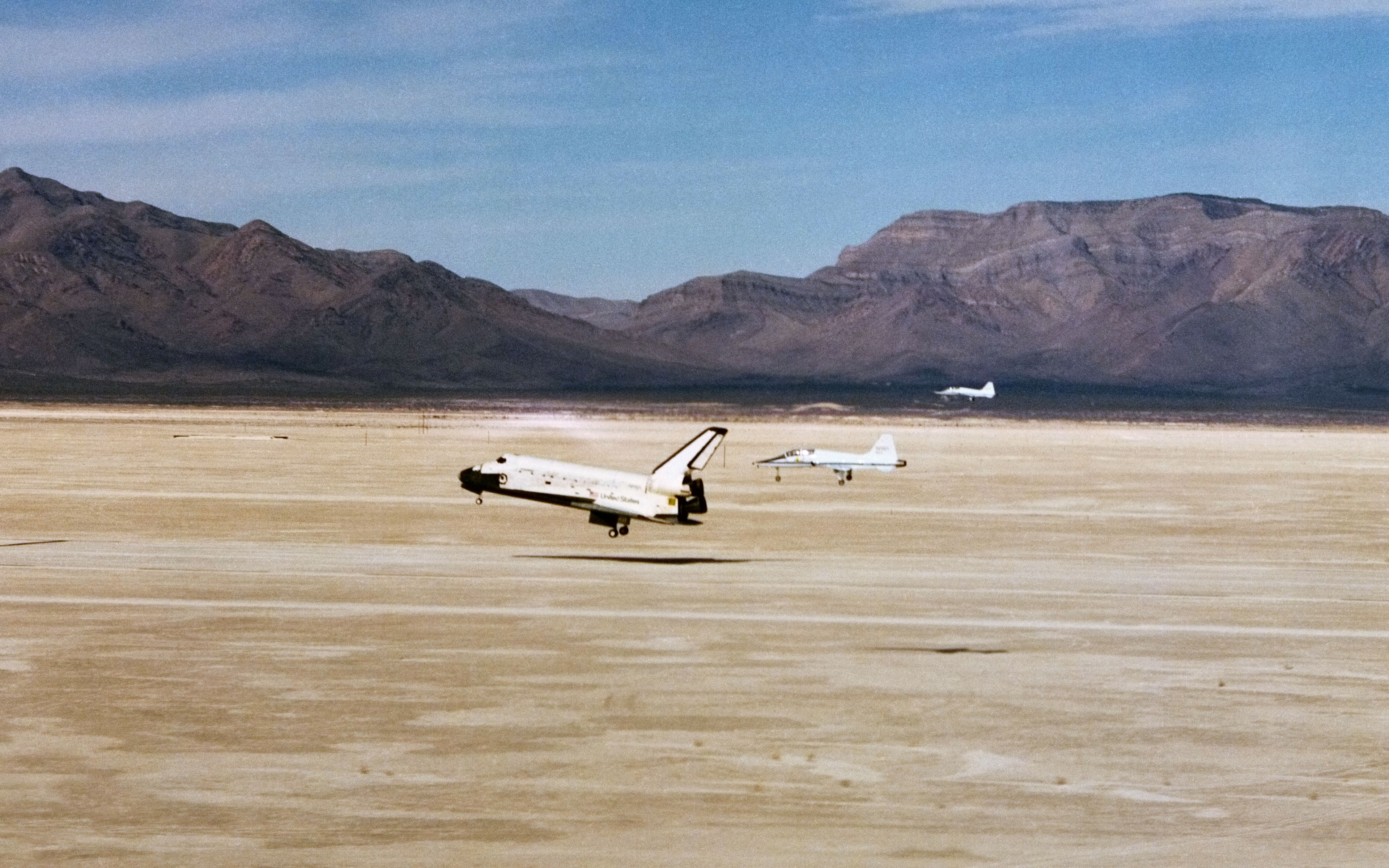 Space Shuttle Columbia is shown seconds from touchdown with two T-38 chase planes following it in to the landing strip, following the completion of the STS-3 mission.